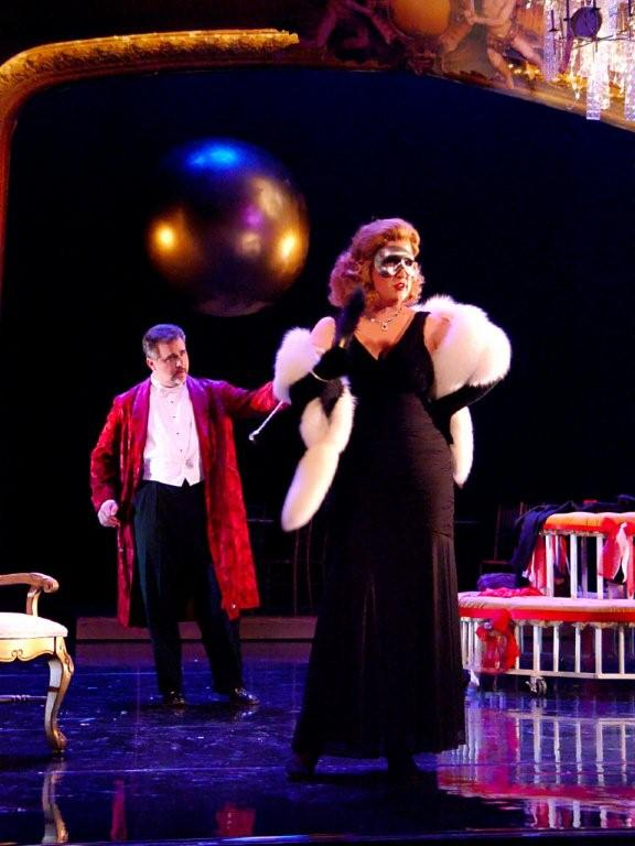 A scene from Act 2 of Die Fledermaus, in a July 2009 production at the Opera Theater of Pittsburgh